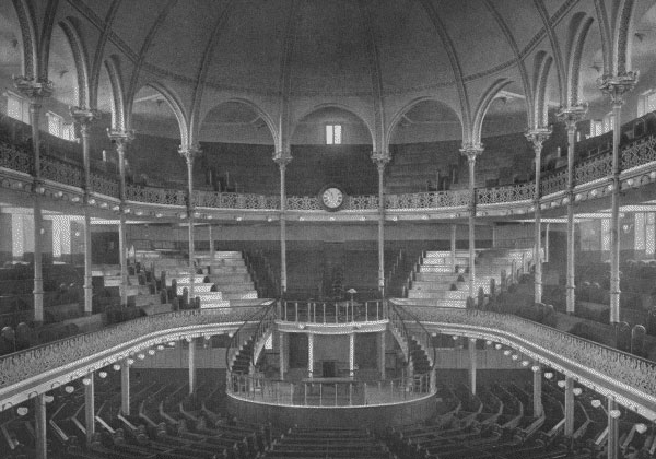 from Spurgeon, Charles; The Metropolitan Tabernacle Pulpit 1864